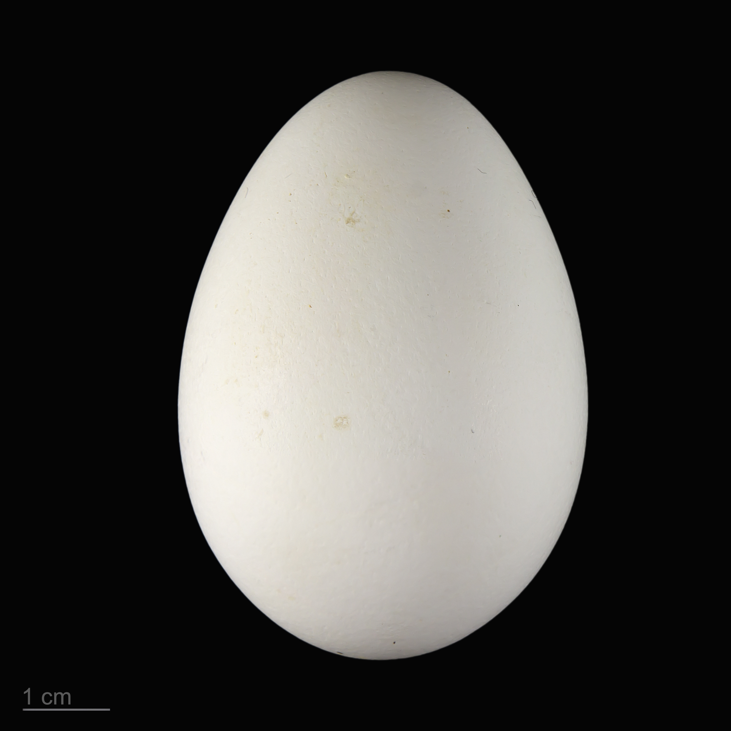 Eggs of straw-necked ibis collection of Jacques Perrin de Brichambaut.